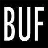 BUF logo